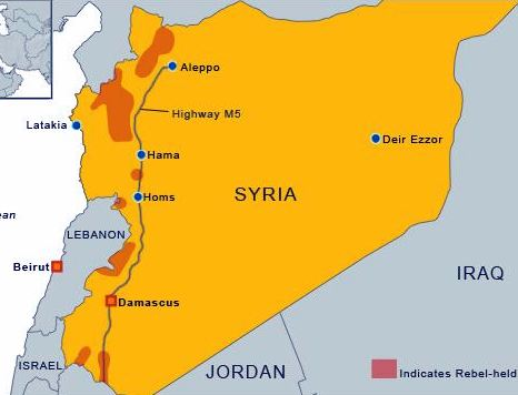 Syrian civil war. Rebel held territory.